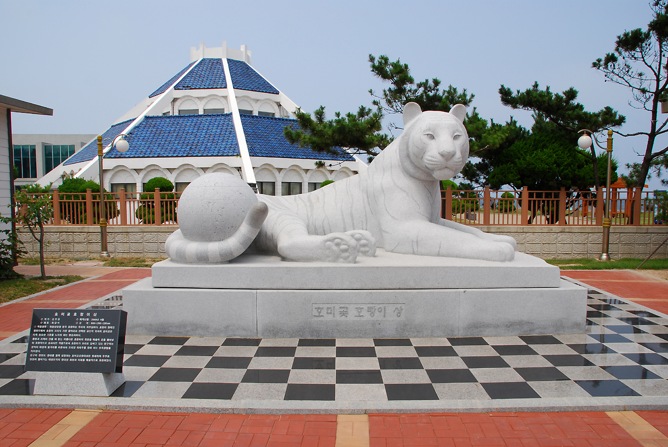 A tiger statue located next to the lighthouse of Homigot